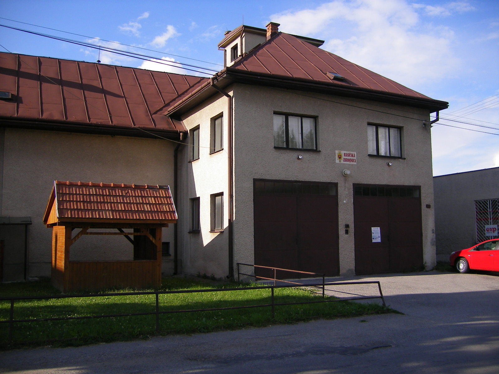 Turčiansky Peter - fire station